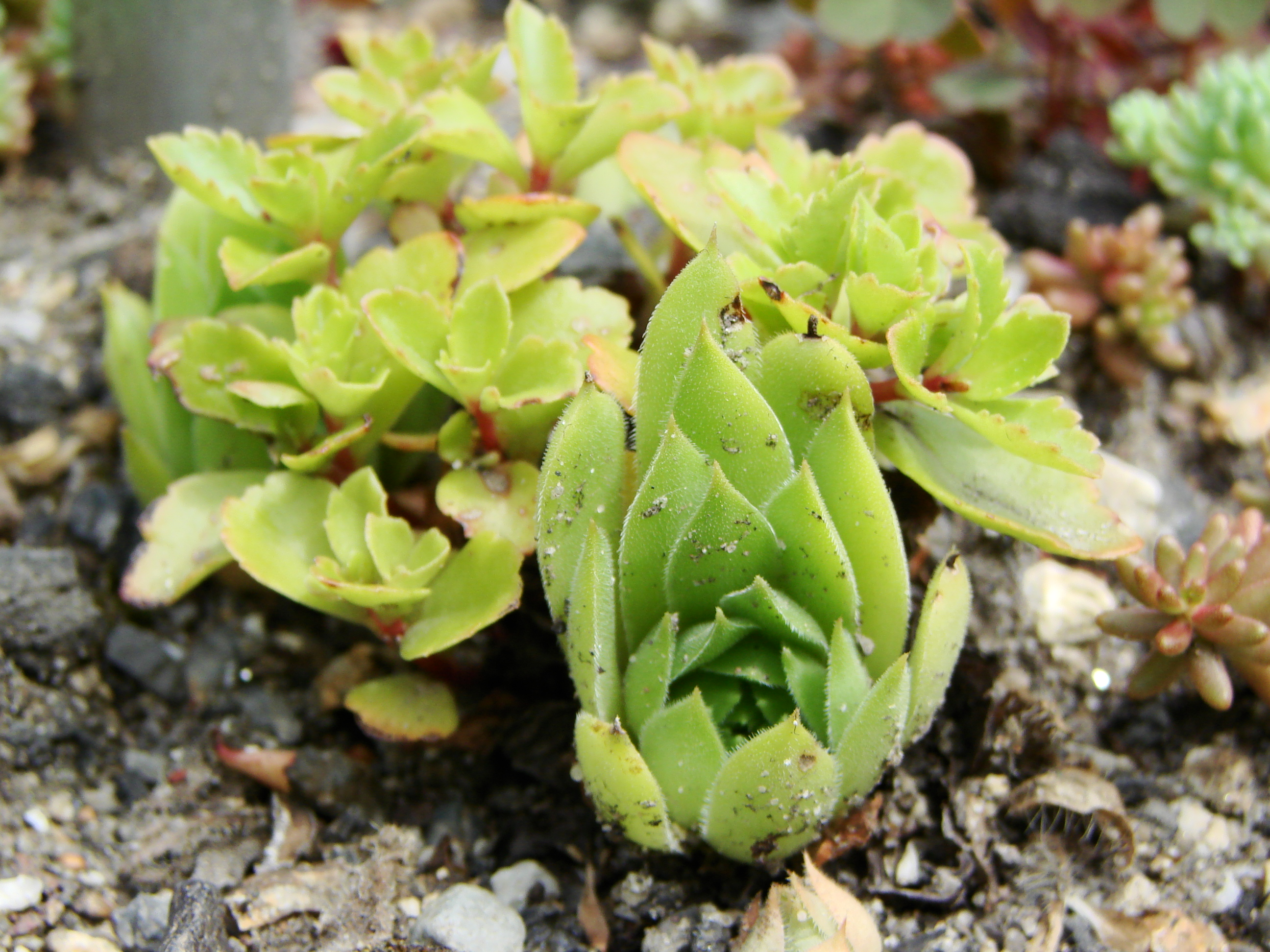 Picture taken in the university botanical garden of Wrocław (Poland): Sempervivum dolomiticum Facchini